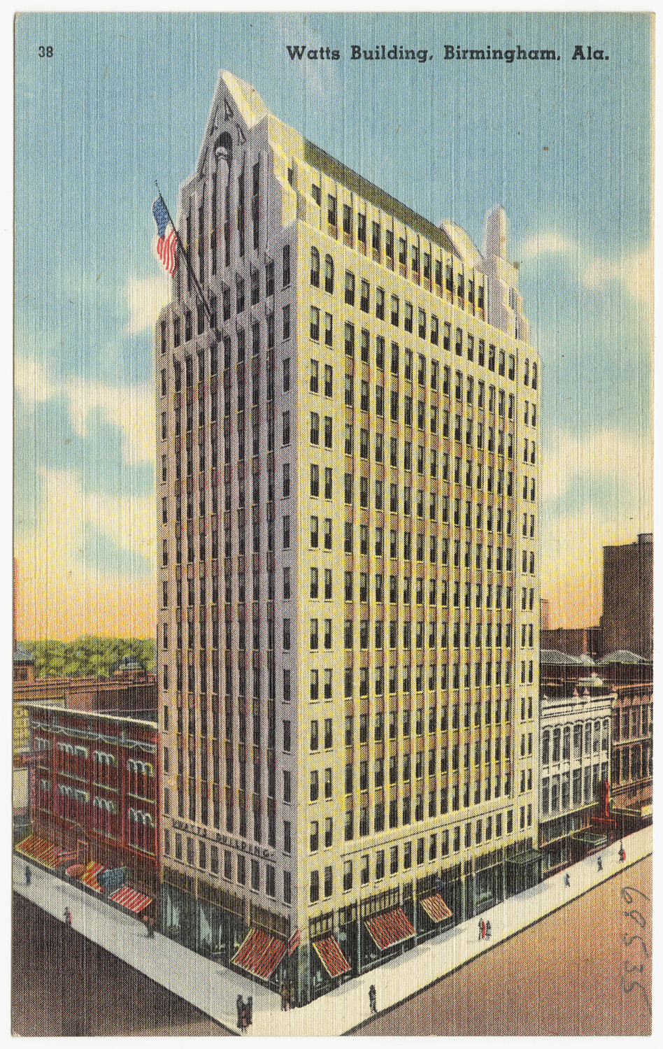 File name: 06_10_012849 Title: Watts Building, Birmingham, Ala. Created/Published: Date issued: 1930 - 1945 (approximate) Physical description: 1 print (postcard) : linen texture, color ; 5 1/2 x 3 1/2 in. Genre: Postcards Subject: Cities & towns Notes: Title from item. Collection: The Tichnor Brothers Collection Location: Boston Public Library, Print Department Rights: No known restrictions